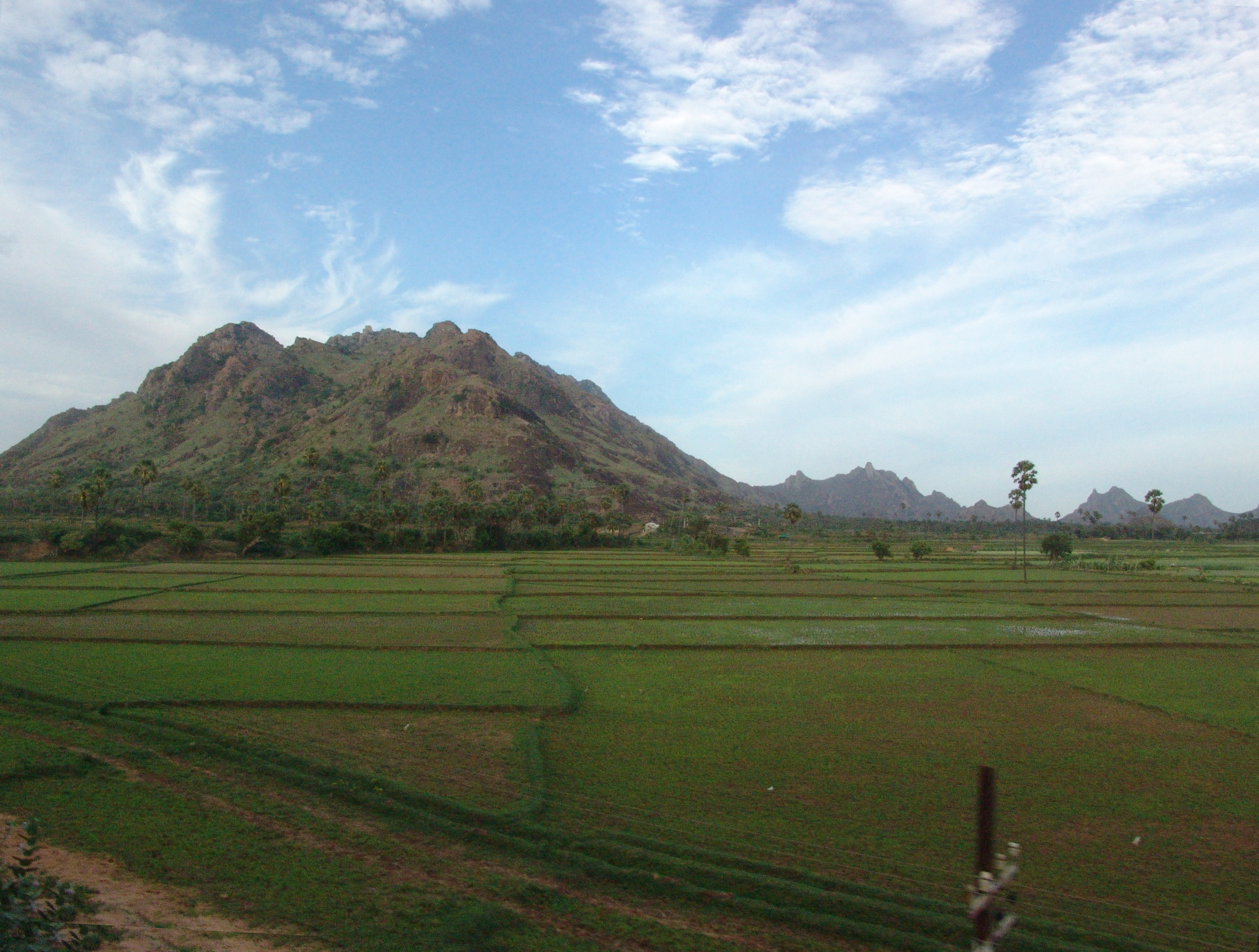 Landscape near Madurai, Tamil Nadu, India seen from the train.